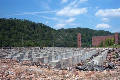 Schenley, Pennsylvania. Place: Site of a recently demolished building in the industrial park. Low resolution version. Taken by Clinton N. Godlesky. From personal collection.